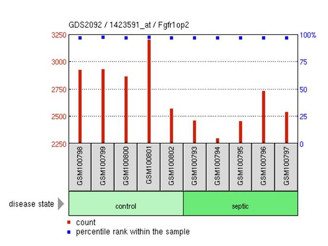 FGFR1OP2 shows low expression in septic splenocytes